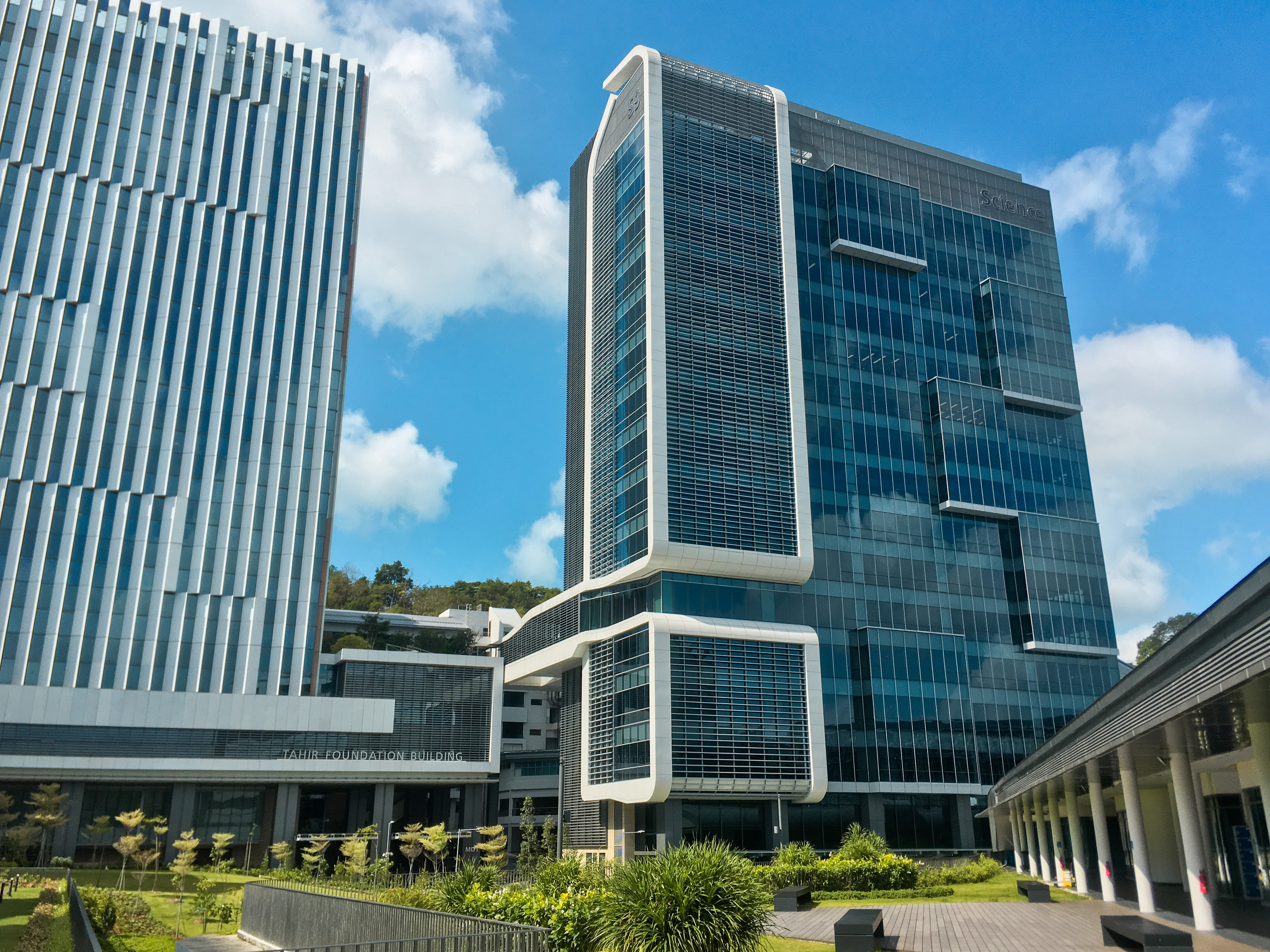 The Faculty of Science at the National University of Singapore.